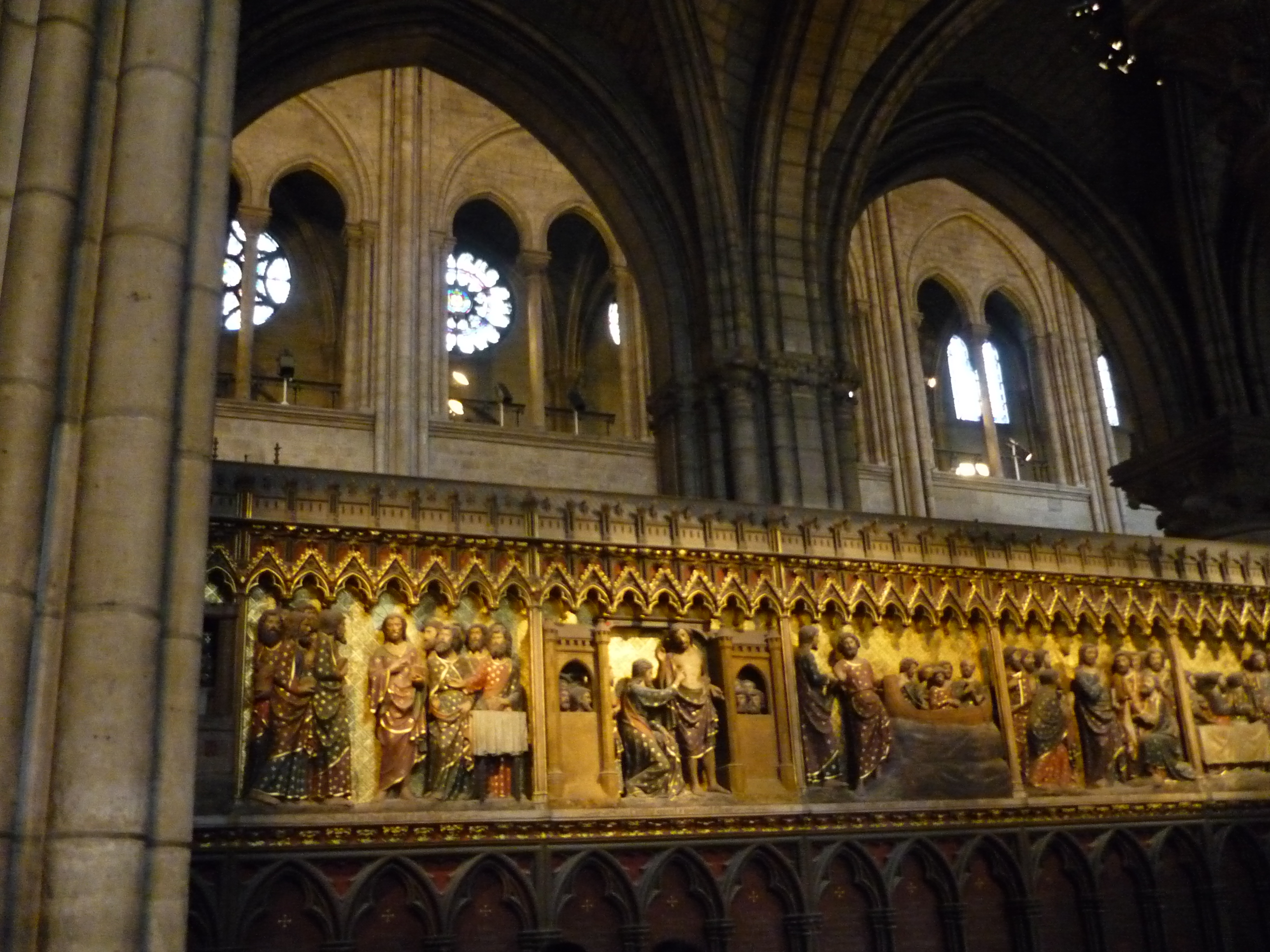 This image is a detail of the relief sculpture that appears behind the choir stalls in the ambulatory of Notre Dame, Paris. The entire relief displays the scenes of Christ's life, from the Annunciation through his death.